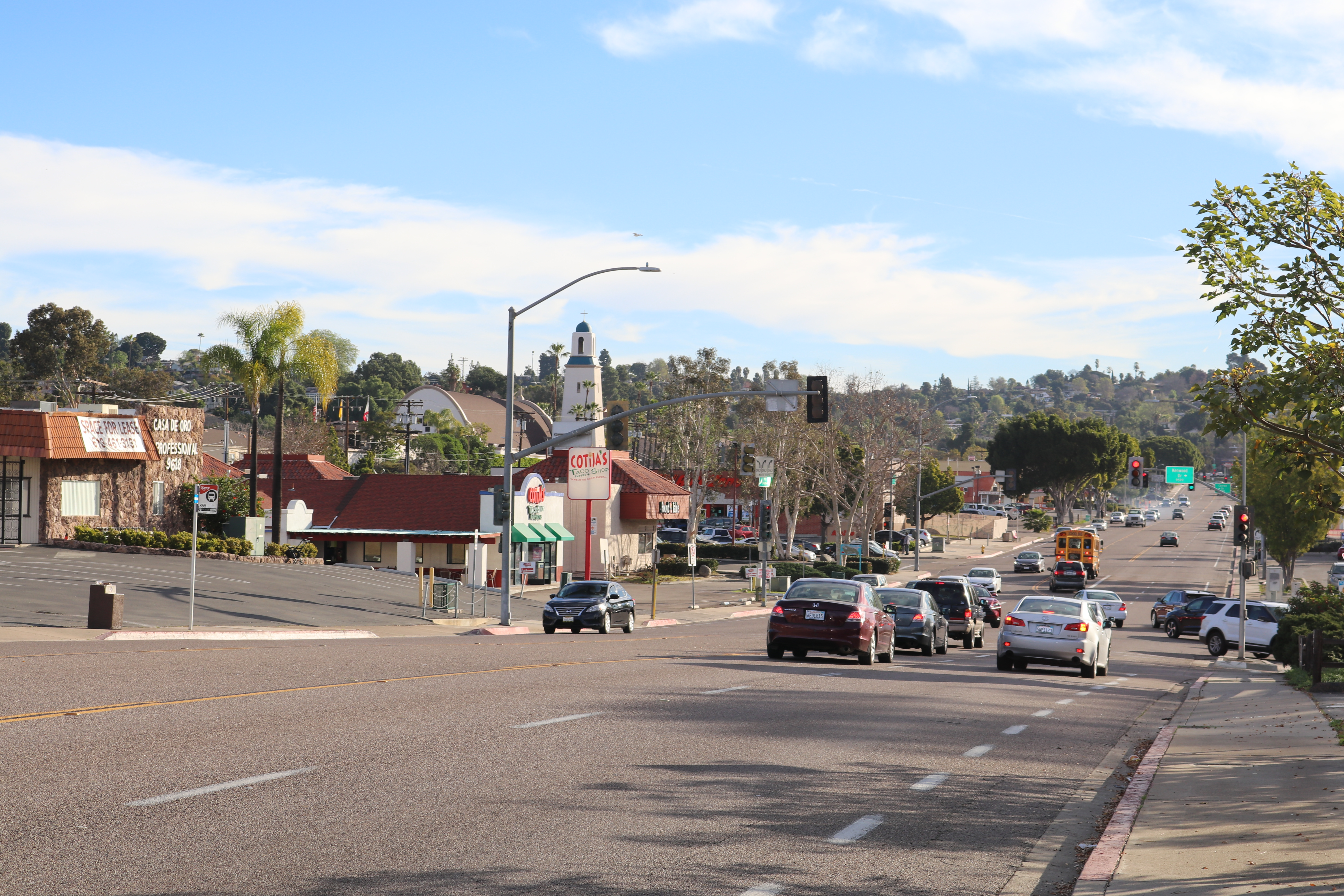 Street view of Casa de Oro looking east on Campo Road with Santa Sophia church on the left handside.